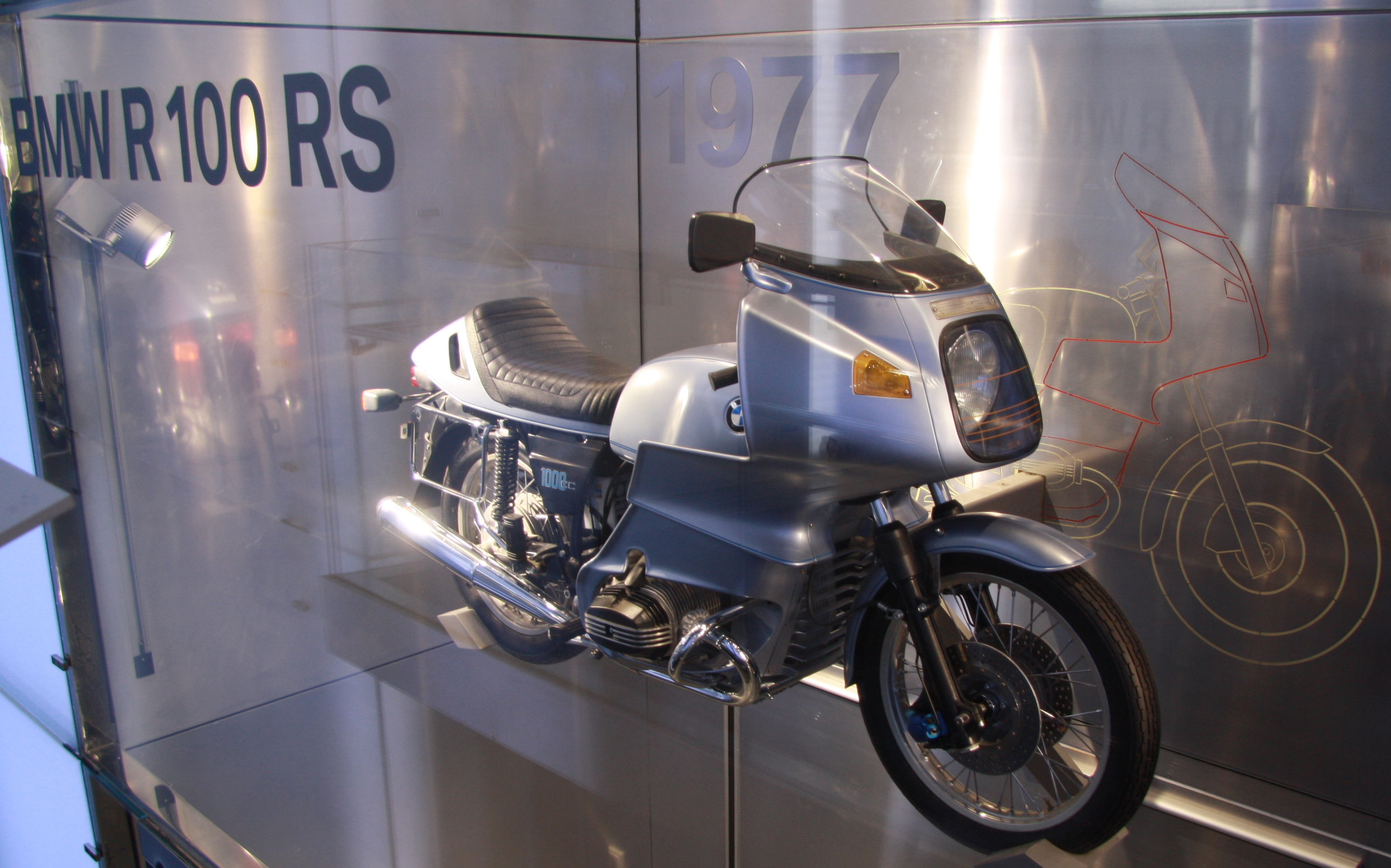 BMW R 100 RS in BMW-Museum in Munich, Bayern.